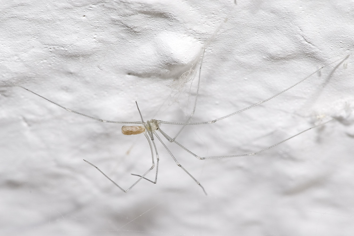 Pholcus phalangioides, juvenil; Many thanks to user:Brummfuss and user:DocTaxon for determination!